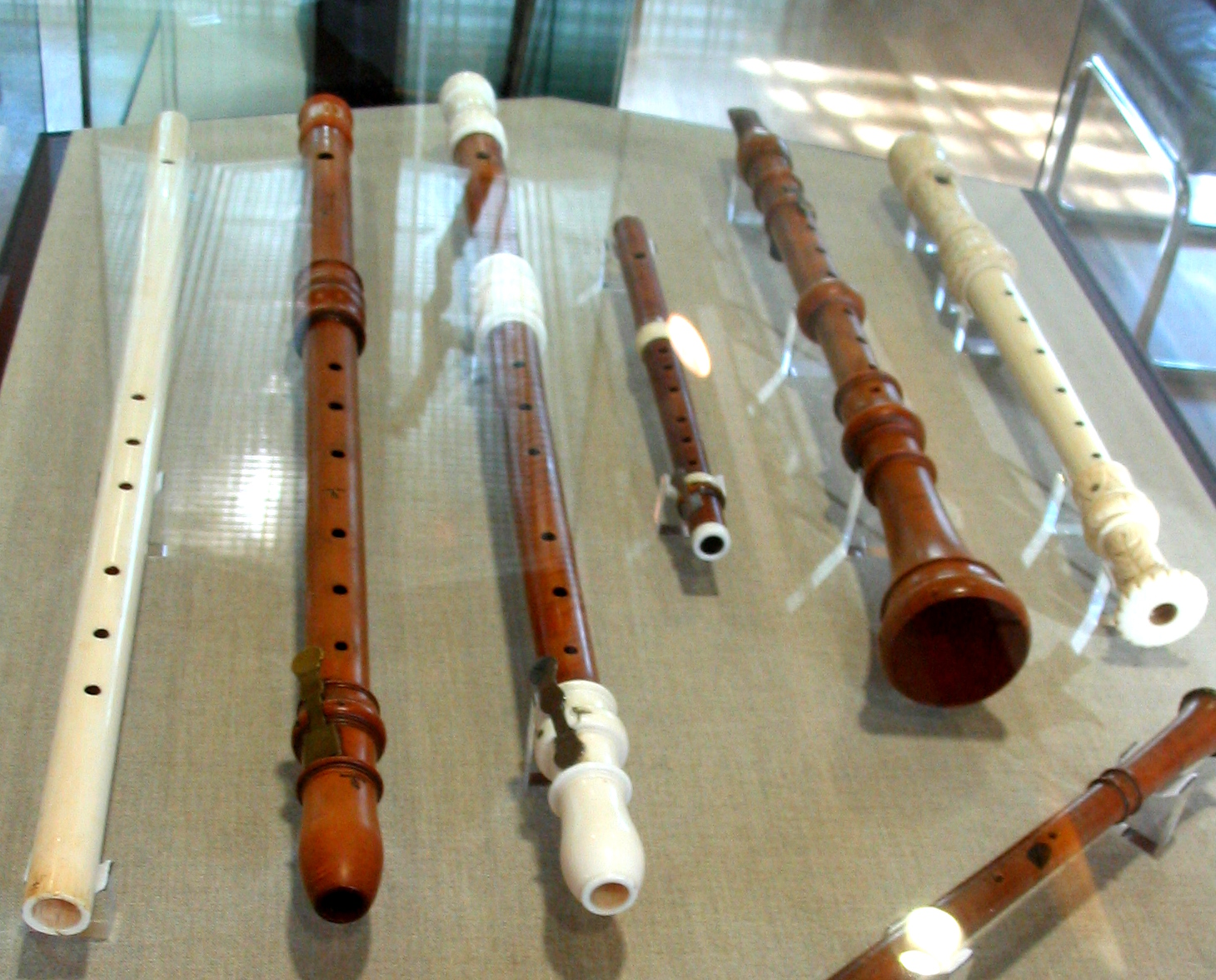 Woodwind musical instruments from the Baroque era. From right to left: recorder; clarinet in C by Denner (Nürenberg, 1707 - 1735; piccolo in C by J. H. J. Rottenburgh; flute by Naum (Paris; ca. 1700) and flute by Hotteterre le Romain (Paris, 1650-1675). Museum of Musical Instruments. Berlin.